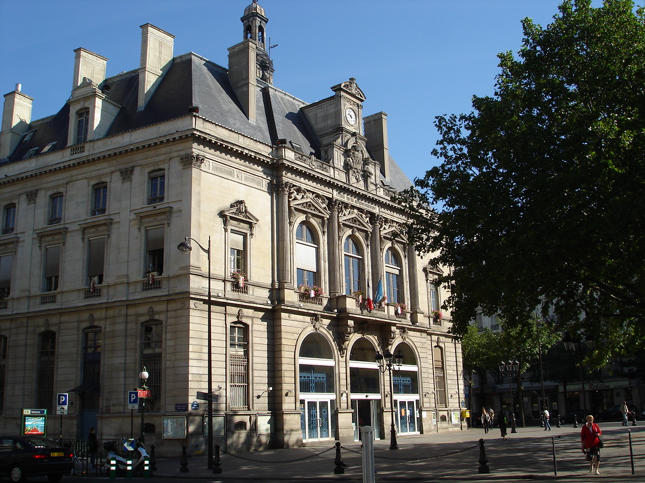 Town Hall of the 11e arrondissement of Paris. View from Bd Voltaire